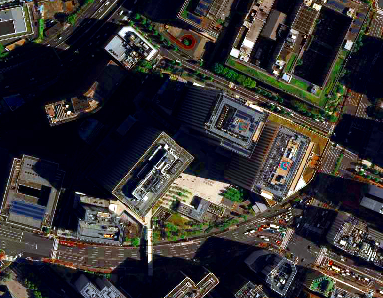 The Geographical Survey Institute took the aerial photograph in Chiyoda Ward, Tōkyō Metropolis on April 27, 2009.